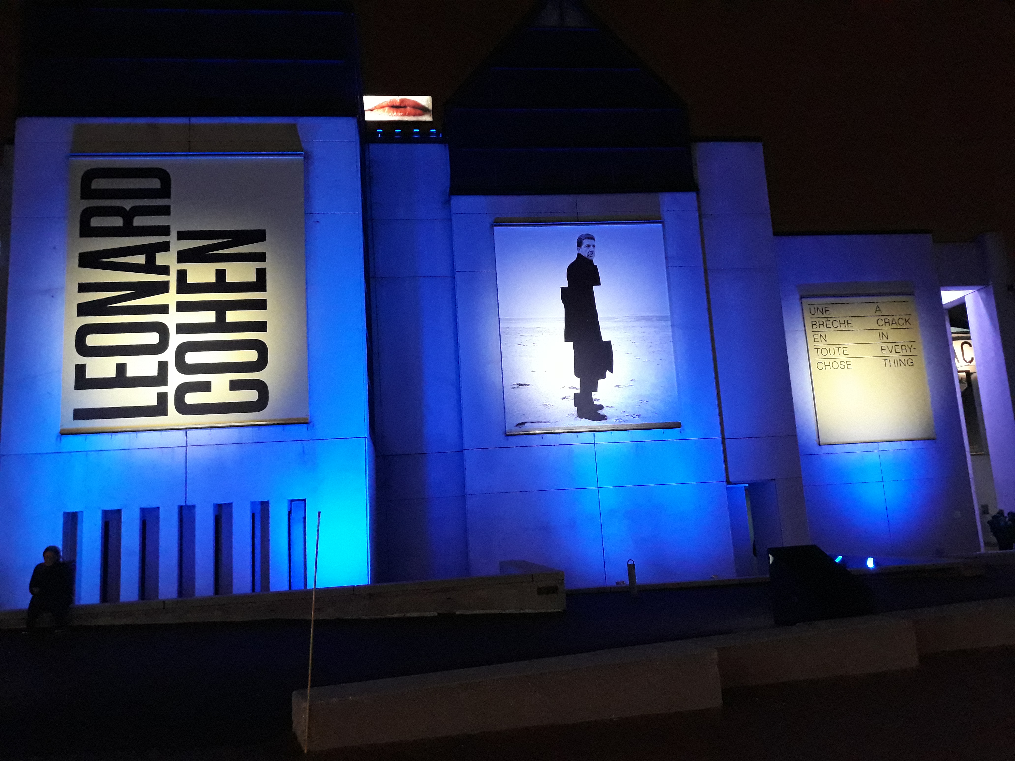 Taken in front of the MAC in Montréal in November, 8th 2017, the occasion is the first anniversary of Leonard Cohen's death and the opening of the tribute exhibition the following day.